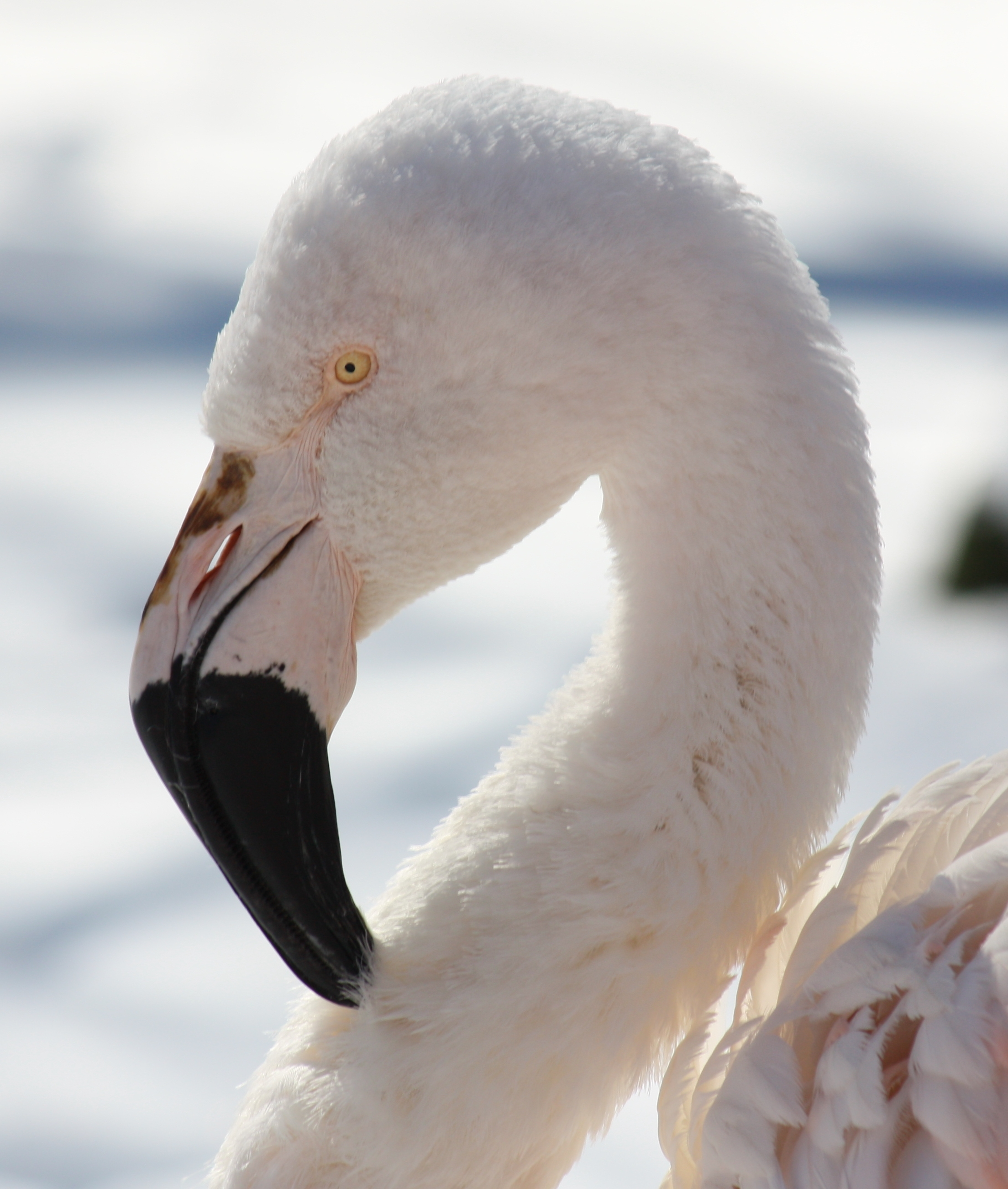 An almost white colored Chilean Flamingo Phoenicopterus chilensis at the Louisville Zoo